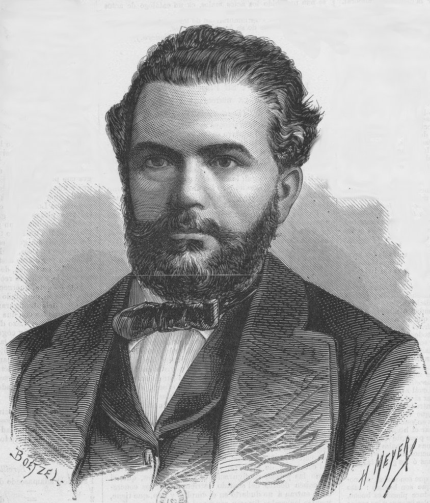 Titre : [Recueil. Portraits de Joaquin Aguirre, docteur, chilien] Sujet : Aguirre, José Joaquin (18..-1901) -- Portraits Type : Portraits,image fixe Format : 1 doc. iconogr. Format : image/jpeg Droits : domaine public Identifiant : ark:/12148/btv1b8527868c Source : Bibliothèque nationale de France, département Estampes et photographie, N-2 (AGUIRRE, Joaquin) Relation : Provenance : bnf.fr Date de mise en ligne : 12/03/2013 Cropped from the image given in the link. Converted to grayscale, background smudged to remove text from other side of the page.